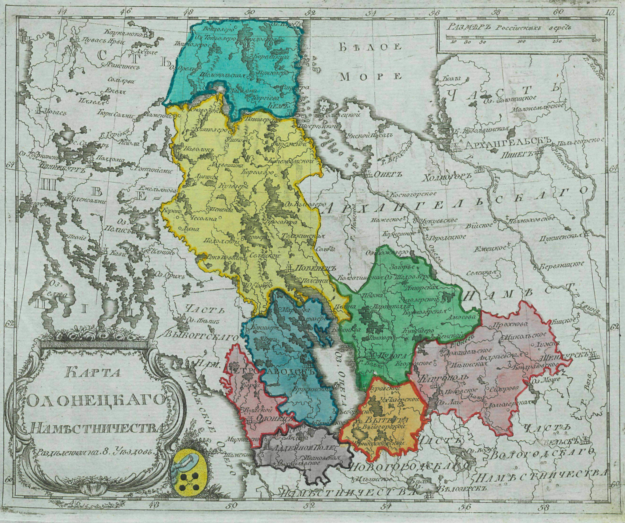 Small atlas of the Russian Empire (1792). Map of Olonets Namestnichestvo (map 9).